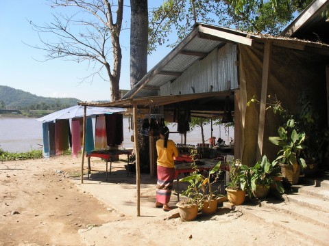 Taken at the "Golden Triangle" where Thailand, Burma and Laos can be viewed at the same time. Vendors are common along the Thailand and Laos border of the Golden Triangle.